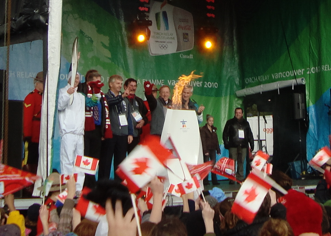 Vancouver 2010 Olympic Flame event on StFX Campus. Canadian Olympic Runner Eric Gillis and StFX president Dr. Sean Riley on stage.